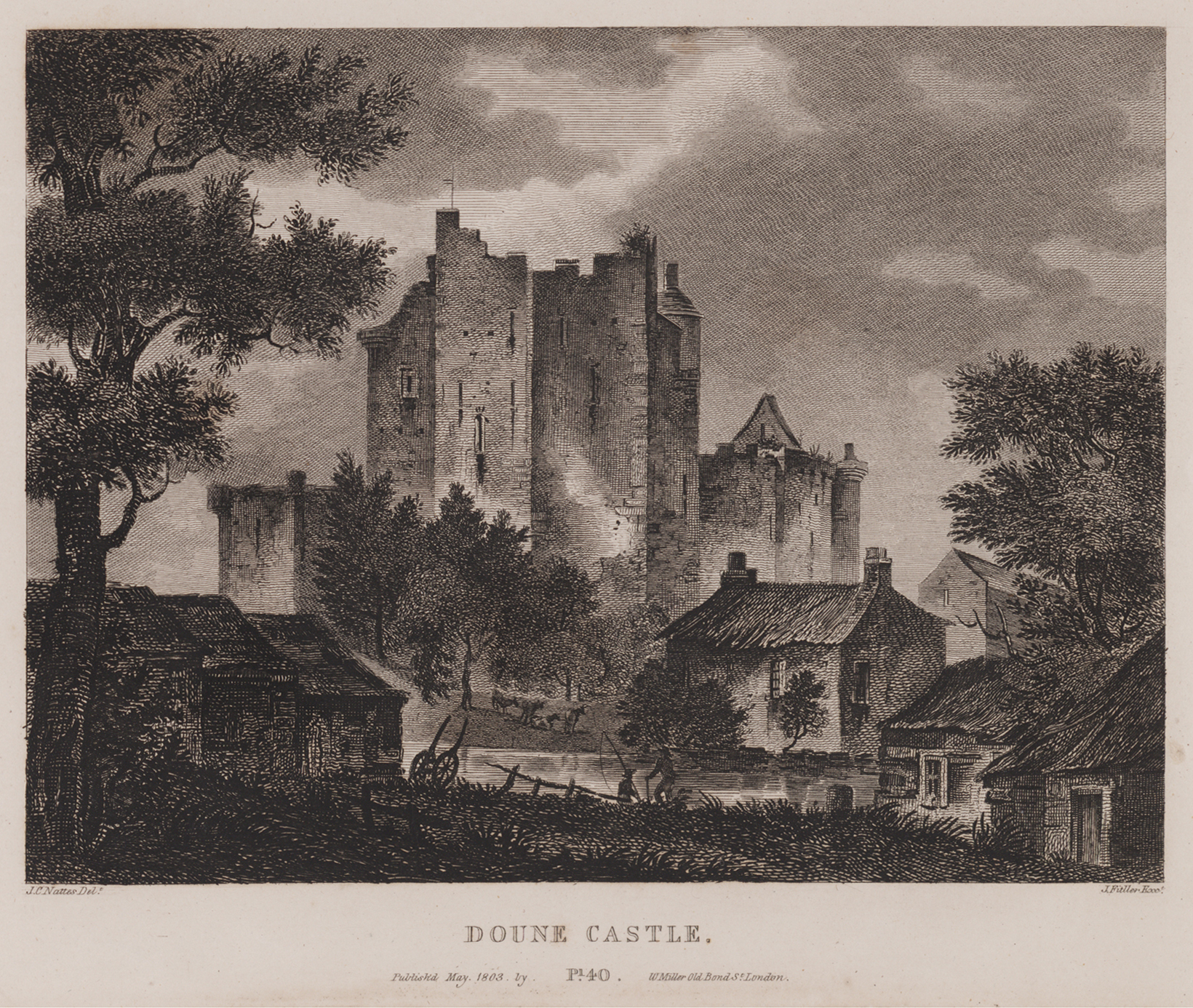 Plate XL/b - John Claude Nattes made drawings of suitable scenes on the spot; etchings are by James Fittler.